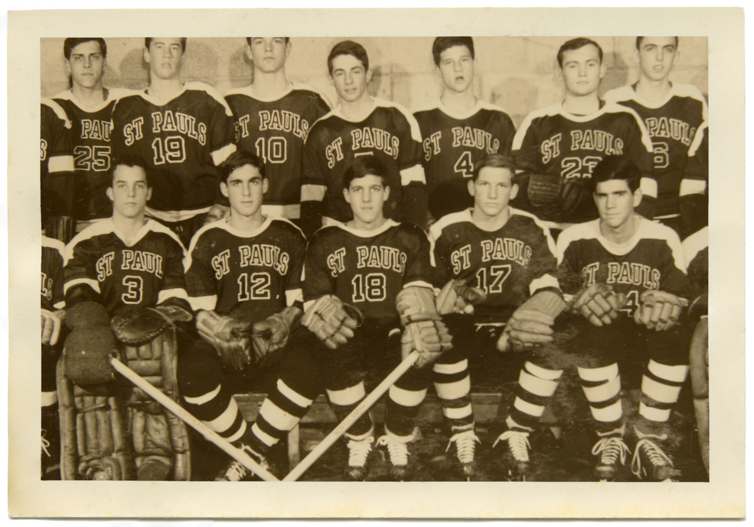 For high school, Mueller attended St. Paul’s School in Concord, New Hampshire. As a senior in 1962, Mueller (#12) played on the hockey team with future US senator John Kerry (#18). DAN WINTERS